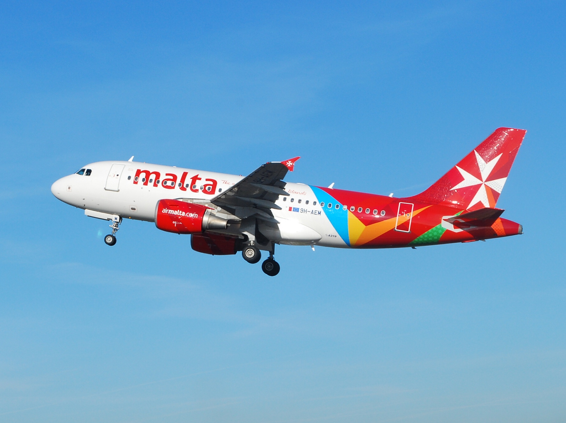 9H-AEM at Heathrow